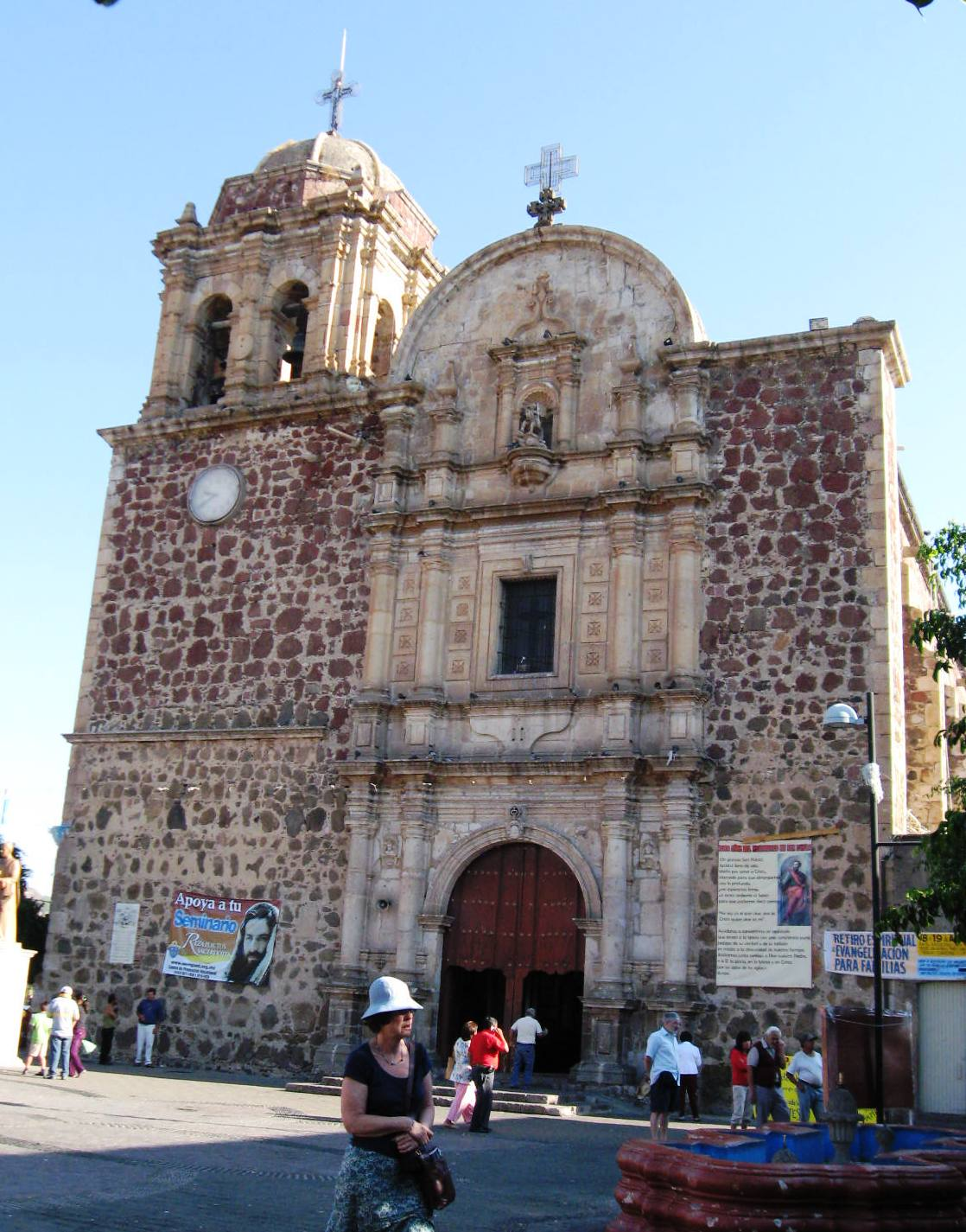 The Colonial Spanish Baroque style Iglesia de Santiago Apostol — the historic main church of Tequila, Jalisco state, México.